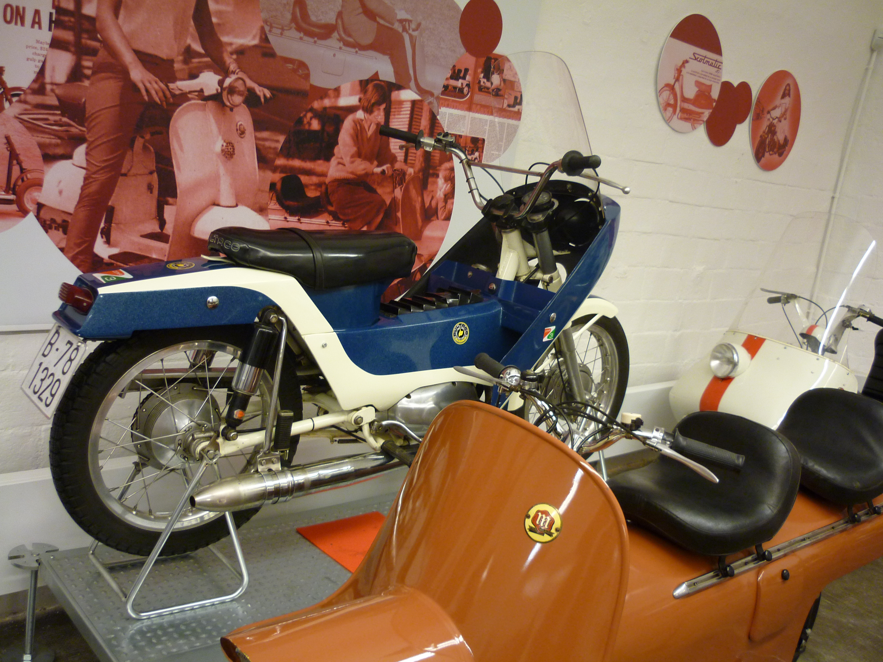 Bultaco Gaviota 200cc. The only unity made, designed by F.X. Bultó, the owner of the company, for his daughter Inés.